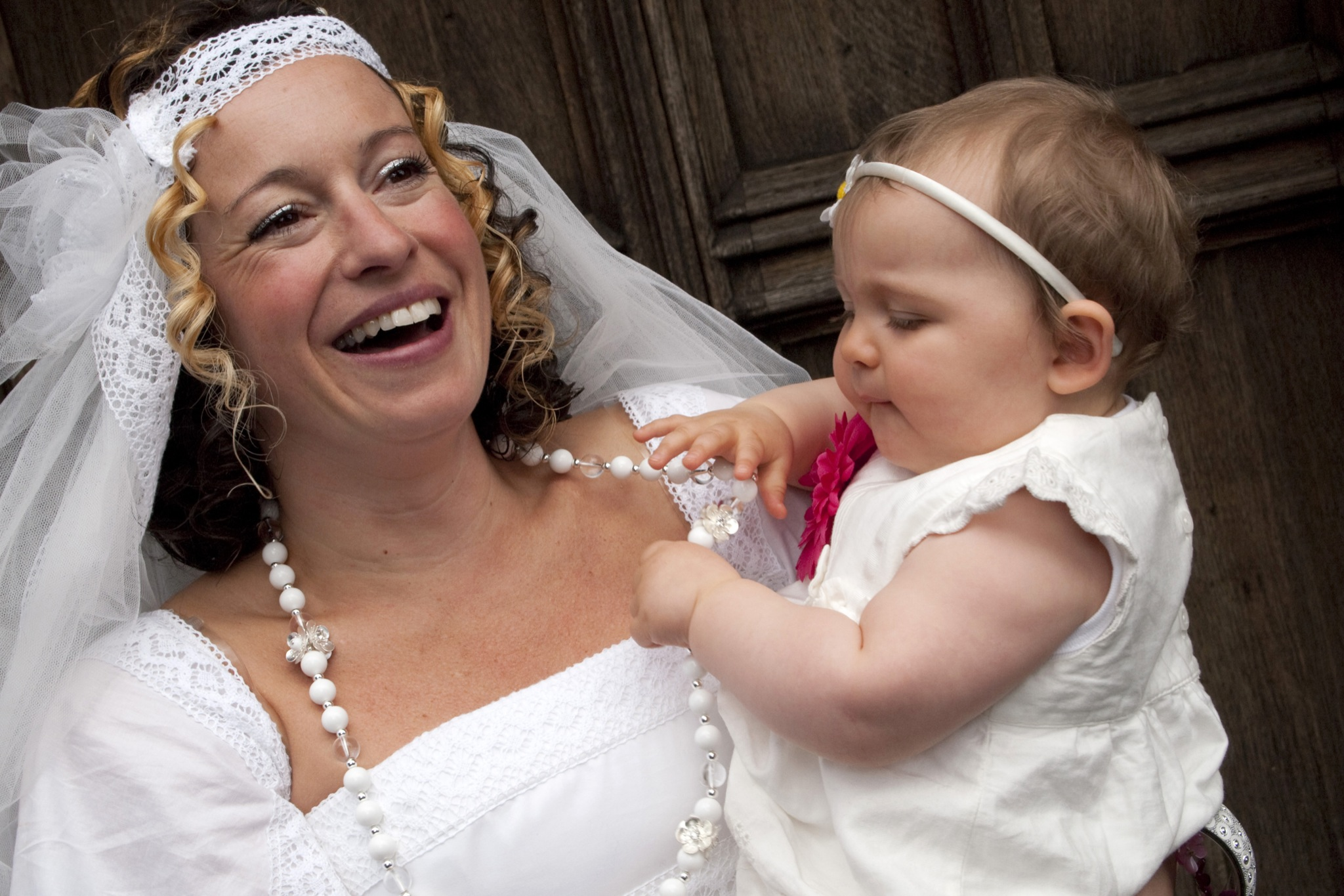 Portraits Kate Rusby